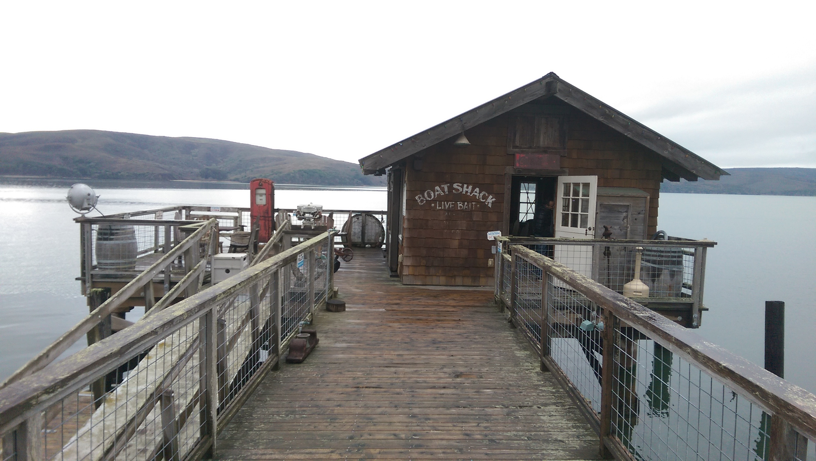 The boat shack at the end of the pier, at Nick's Cove, California. Photo by Jim Heaphy.